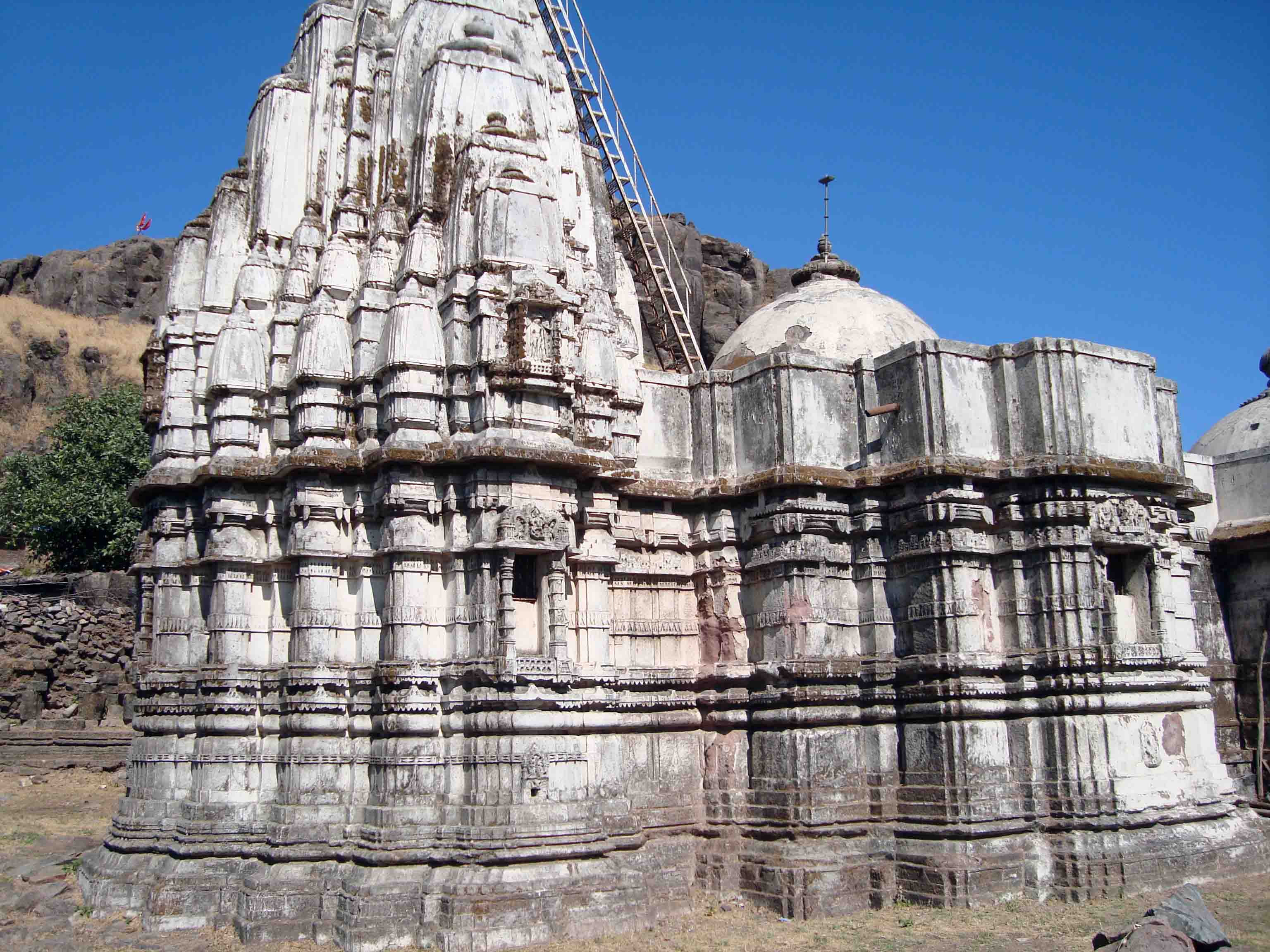 Ruined Hindu temples & Jain temples on the top of Pavagad hills